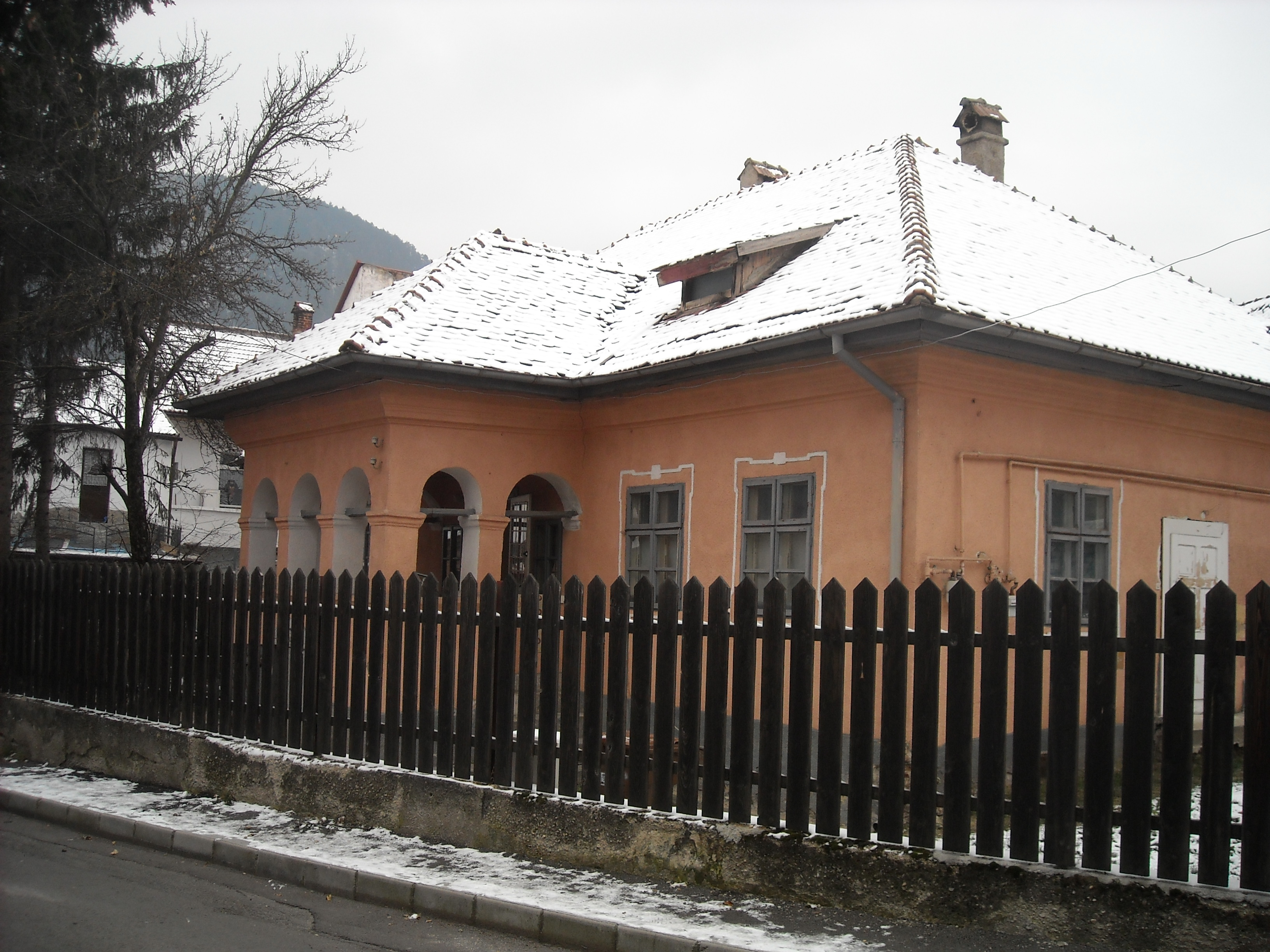 the mansion of the Grid Orthodox priestly family, from the 18th century, in Șcheii Brașovului